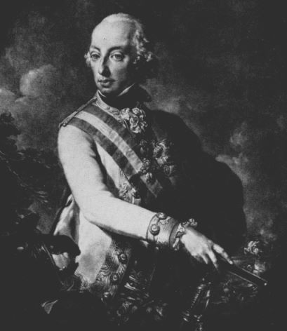 Archduke Charles of Austria, Field Marshal, 1771–1847, victor of the Battle of Aspern-Essling